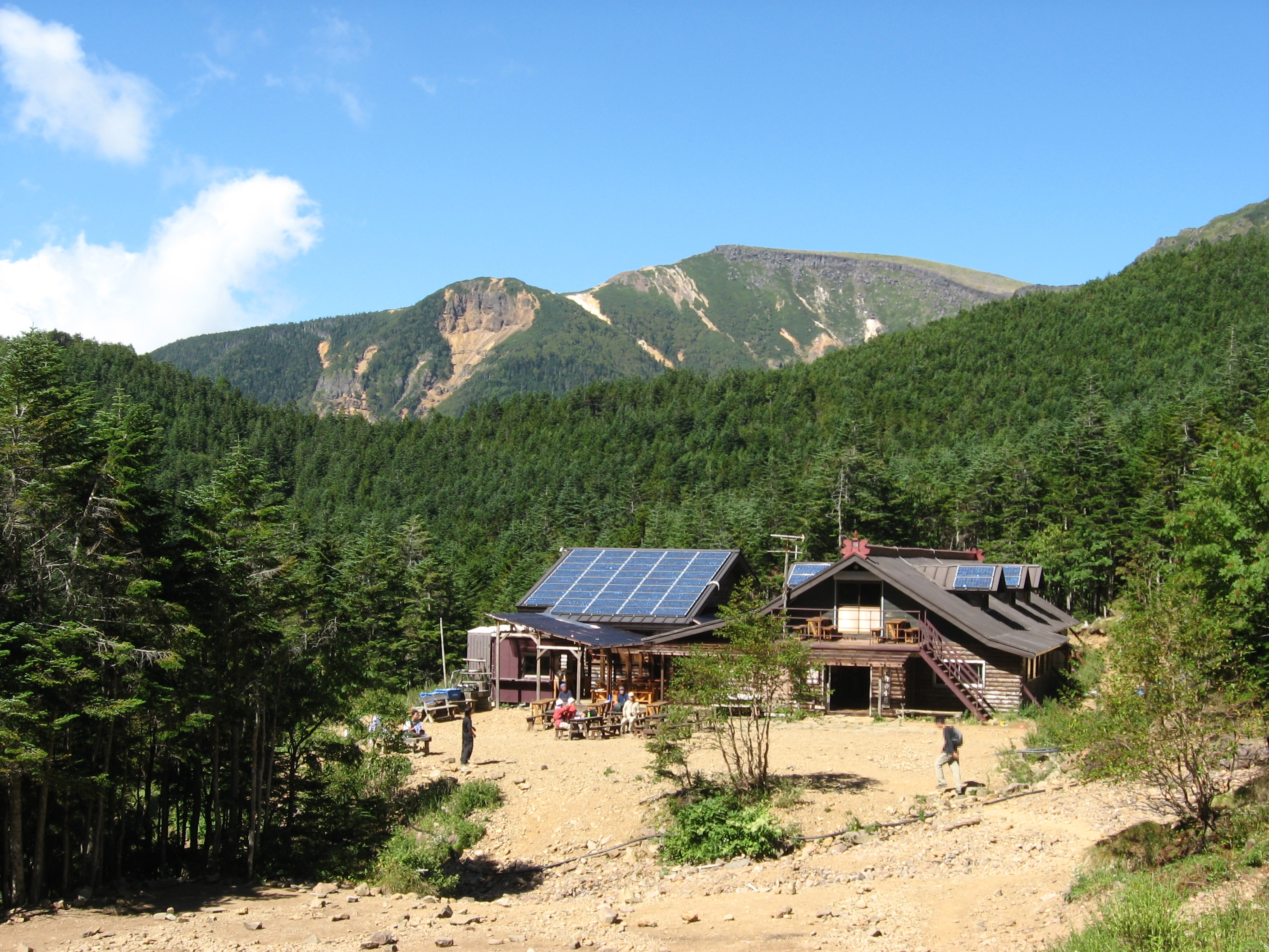 Mount Akaiwanoatama and Mount Io (Io-dake) as seen from Gyojagoya (Gyoja Hut) in the Yatsugatake Mountains